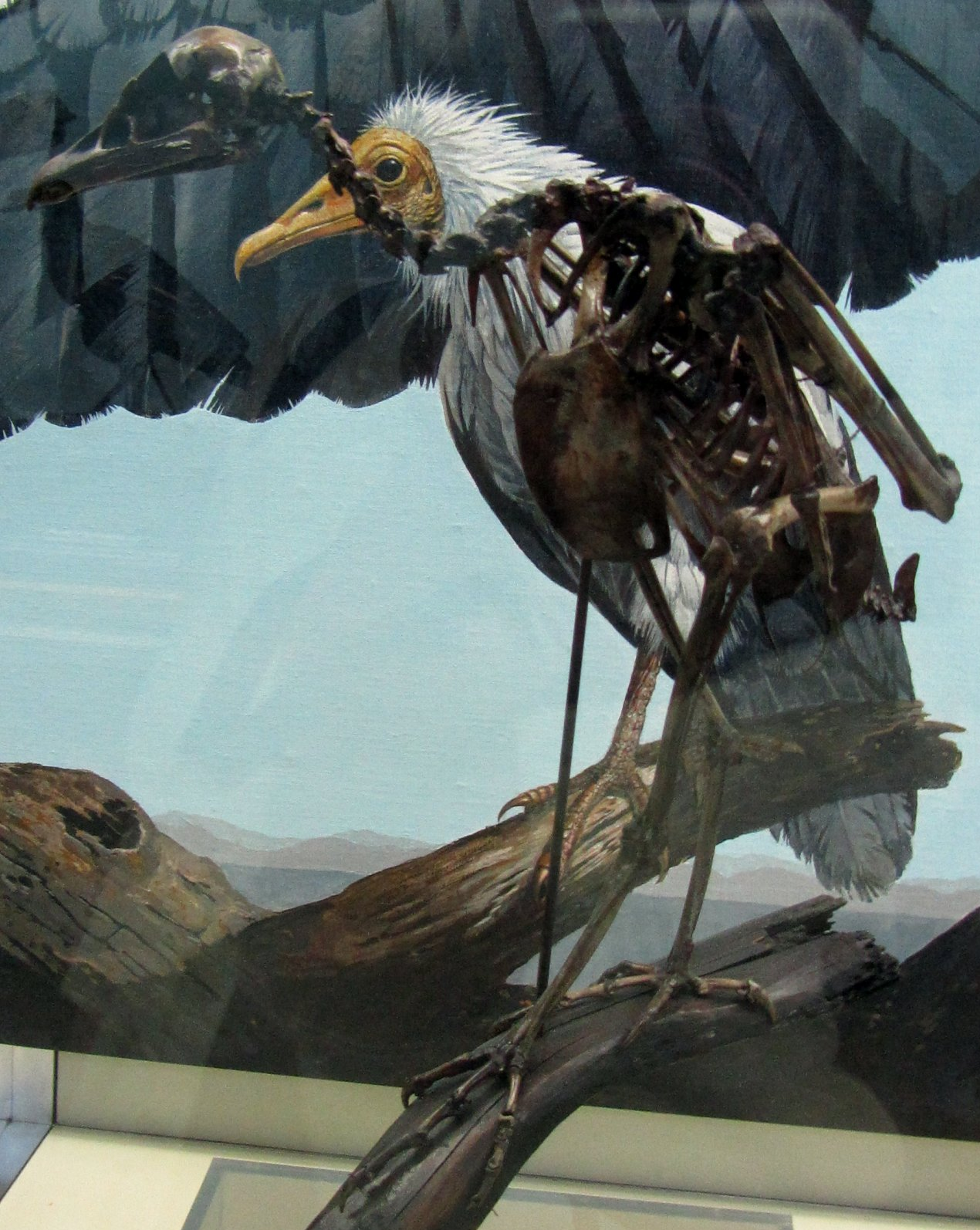 Extinct vulture Neophrontops americanus